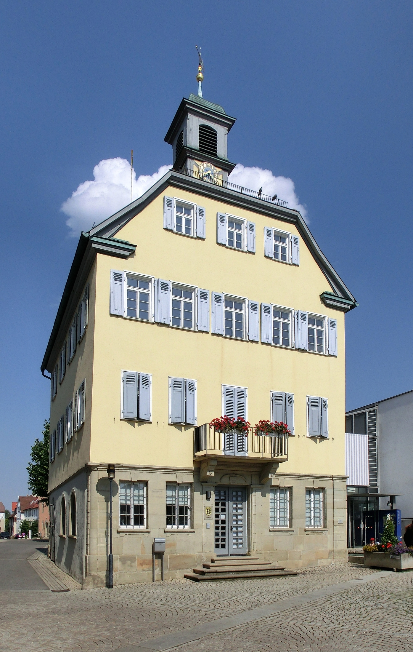 The town hall of Kirchheim am Neckar, Baden-Württemberg.